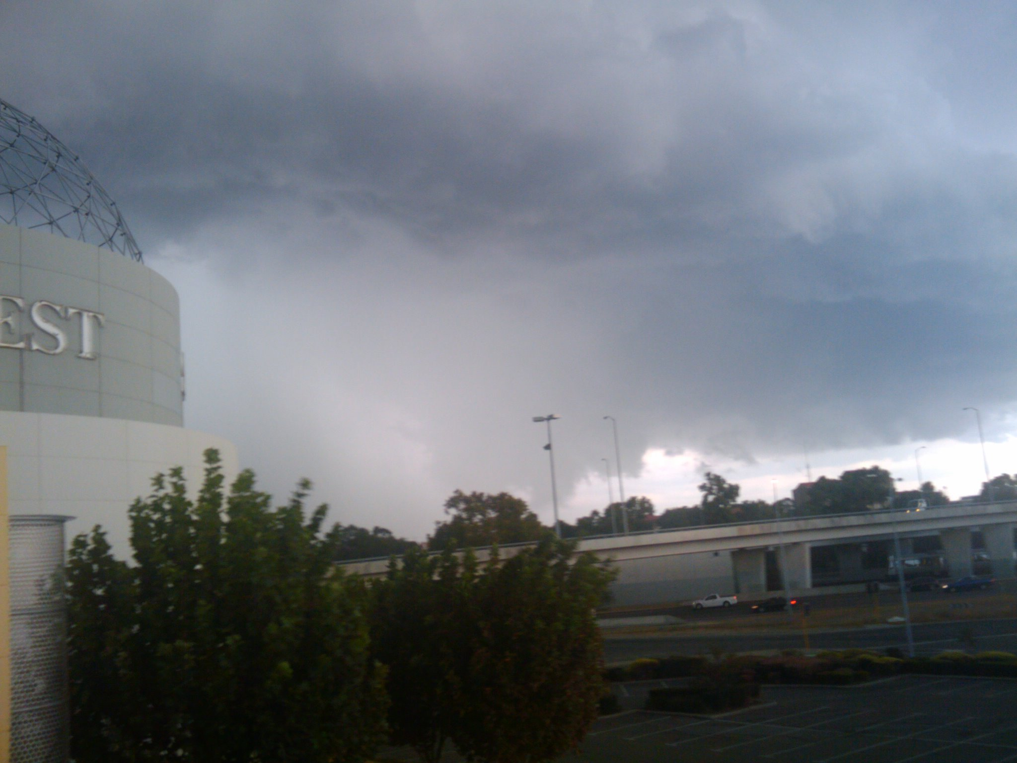 The planetarium dome just before the storm hits.